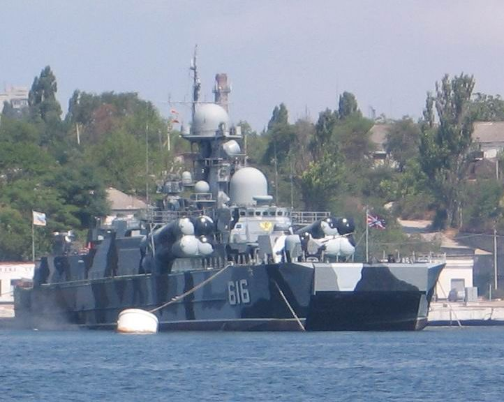 Bora Class Guided Missile Corvette Samum (No.616, built in 1991)